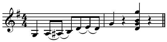 G run in G major. Created by Hyacinth (talk) using Sibelius 5.